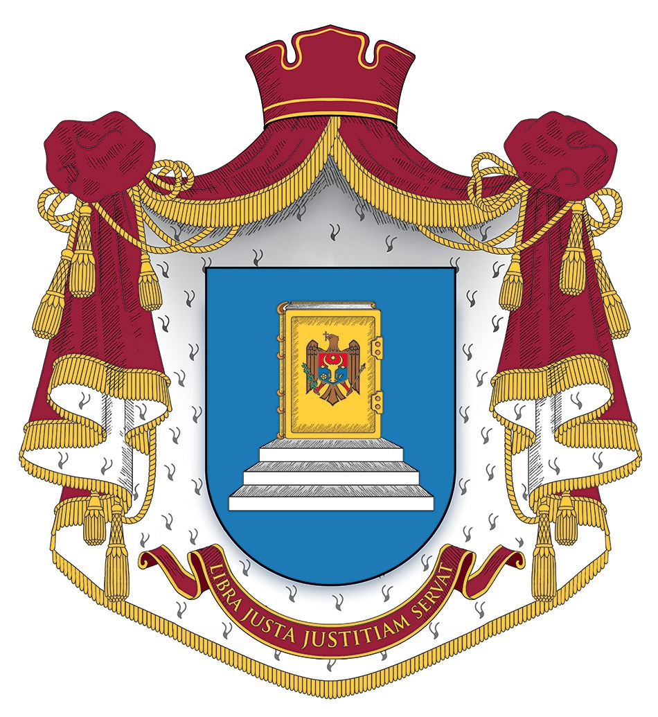 Blazon al Curții Constituționale a Republicii Moldova